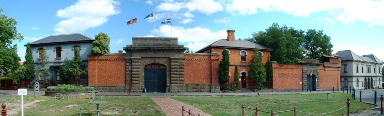 The front of the old Ballarat Gaol in Lydiard Street South, Ballarat. The buildings are now part of the University of Ballarat.